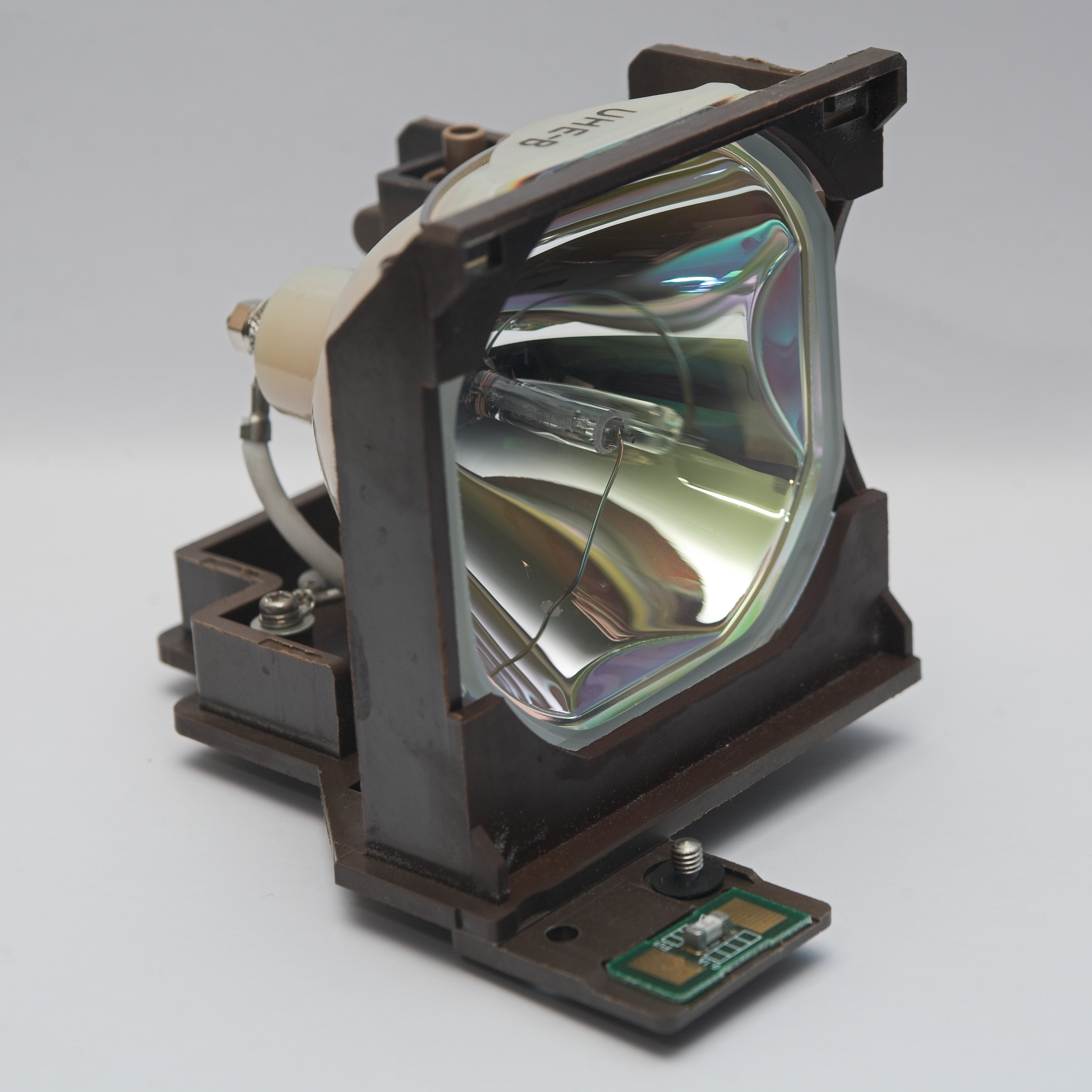 Lamp of a video projector